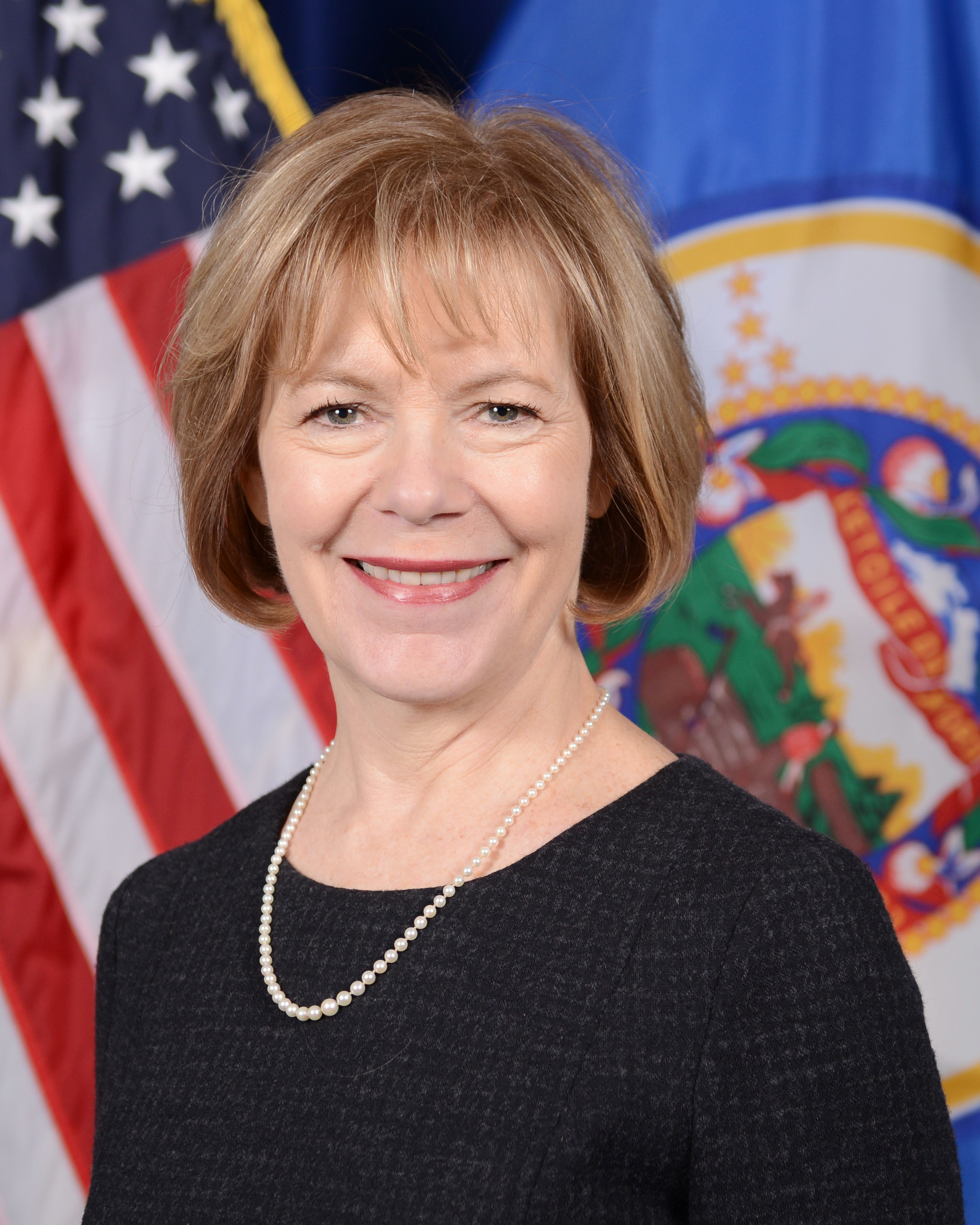 Lt. Governor Tina Smith